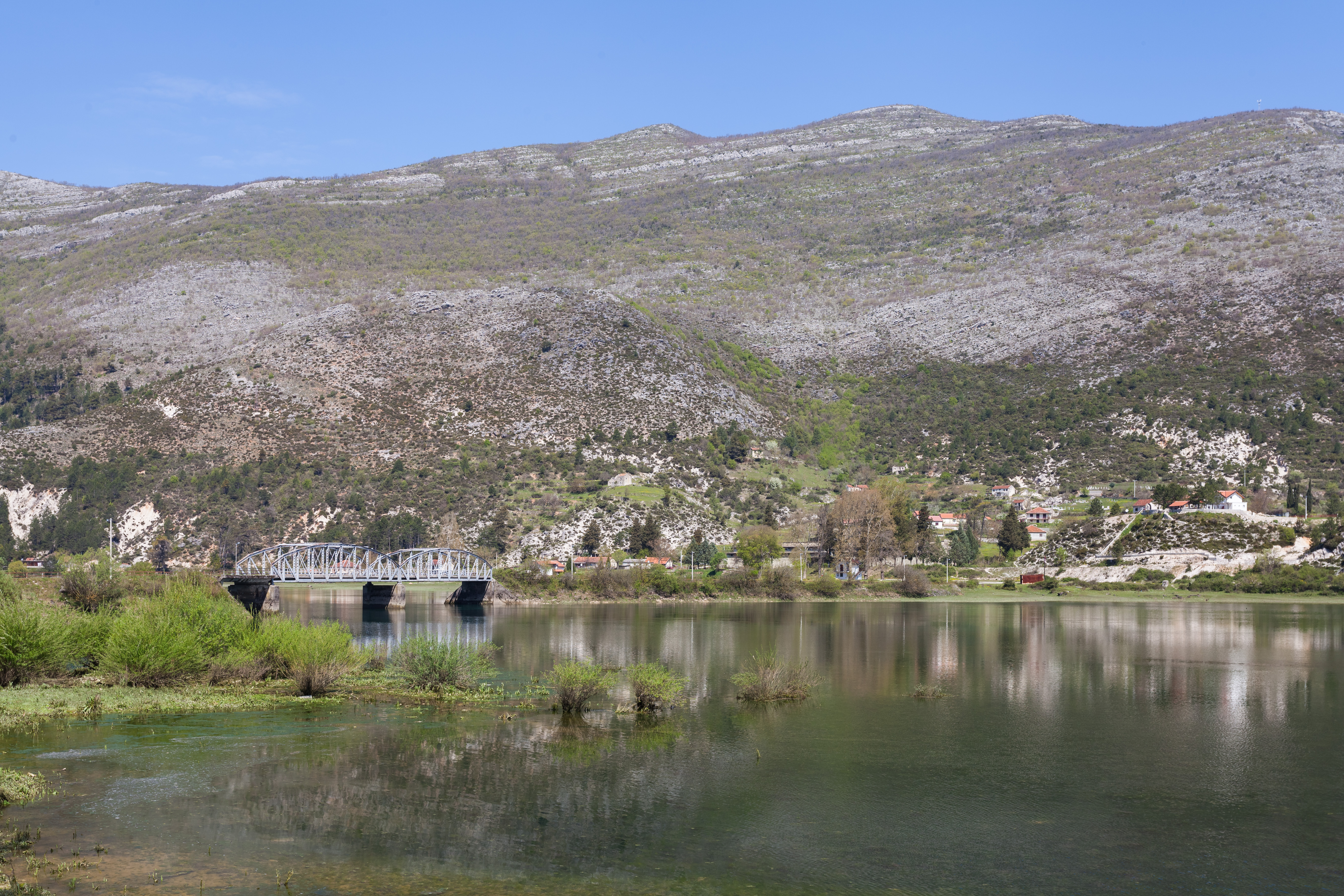 Gornji Orahovac, Bosnia and Herzegovina